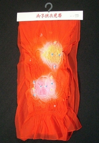 Heko obi for children made of nylon